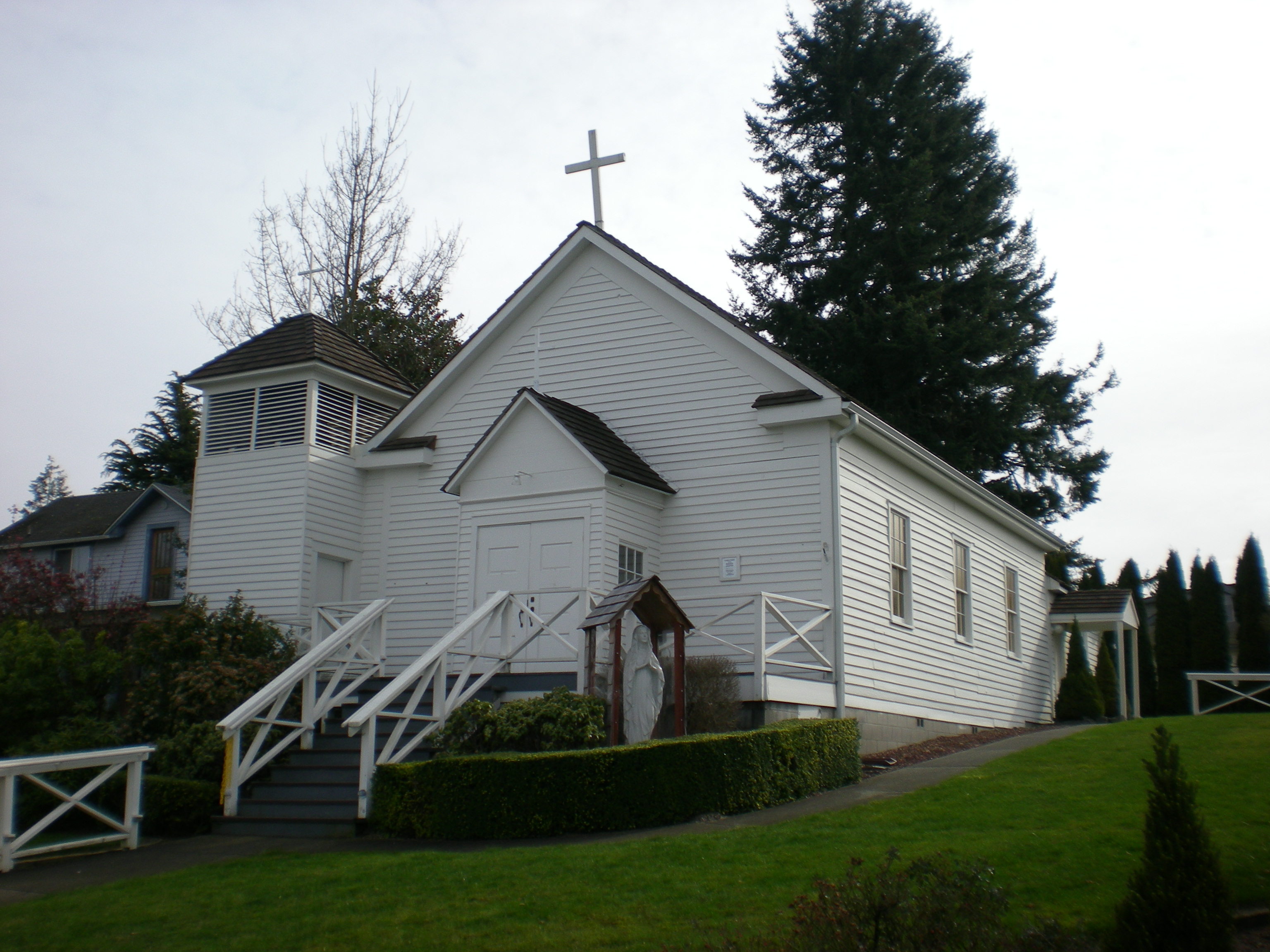 The Immaculate Conception Church, also known as the Steilacoom Catholic Church, in the Steilacoom Historic District, Steilacoom, Washington. Both the church and the broader district are on the National Register of Historic Places.